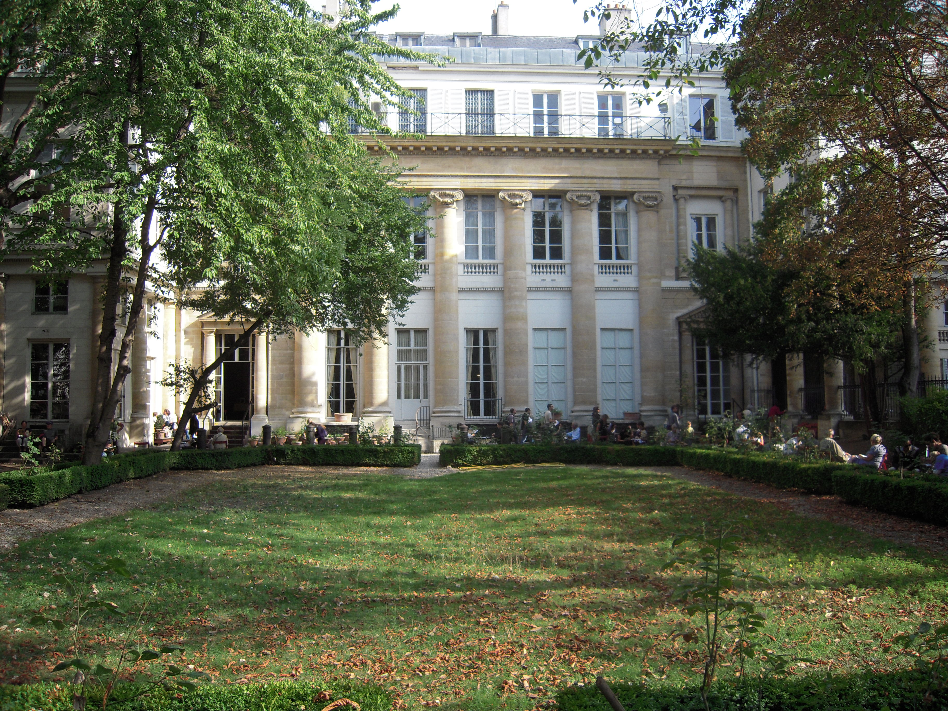 The Italian Cultural Institute, Paris.